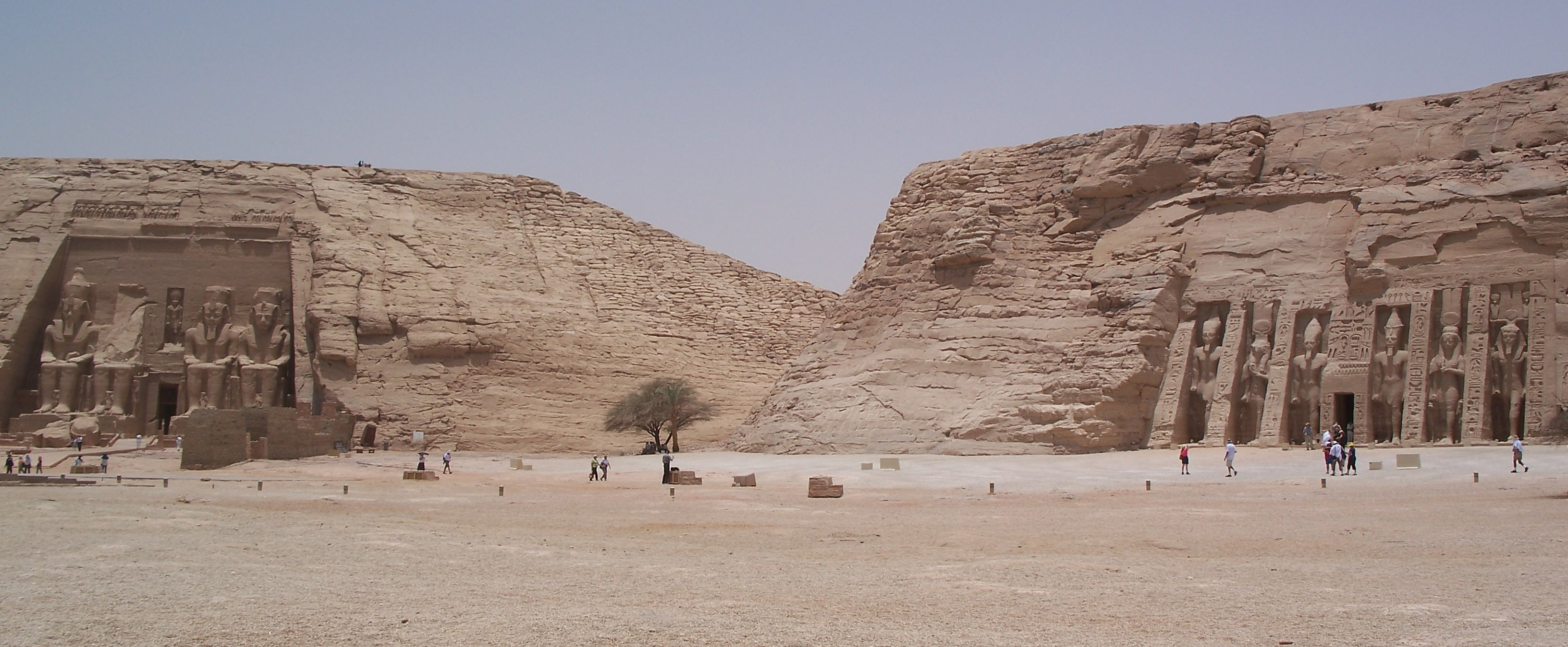 Abu Simbel Temples of Ramesses II and Nefertari. Taken by myself. May 30, 2007.